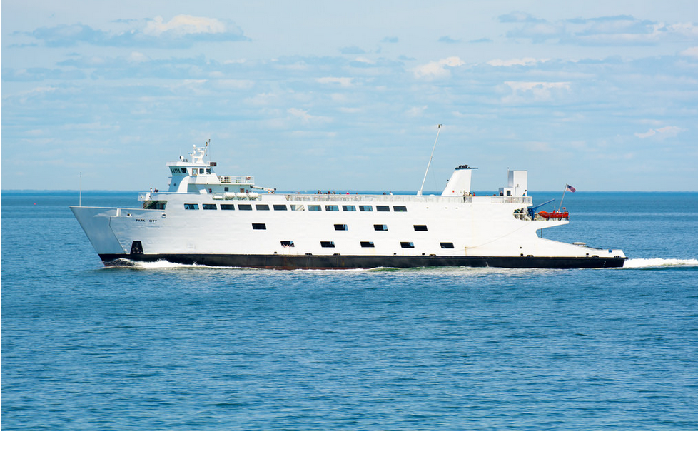 This picturesque summer 2016 photo shows the MV Park City crossing the Long Island Sound between Port Jefferson, NY and Bridgeport, CT.